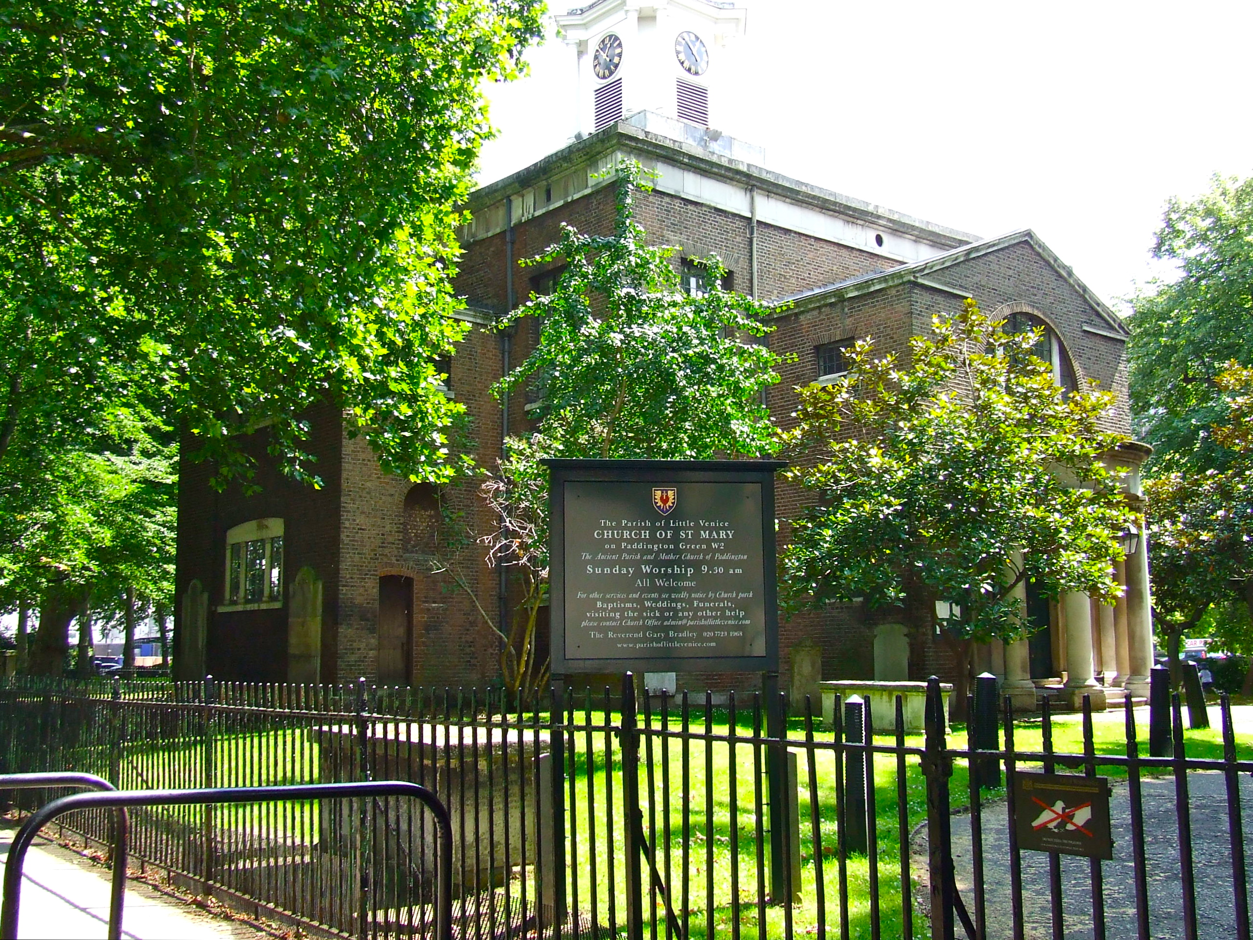 St Mary on Paddington Green Church, located in Paddington Green conservation area and built 1791 by John Plaw